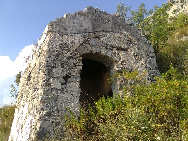 The chapel of Saint Paul in Maratea.